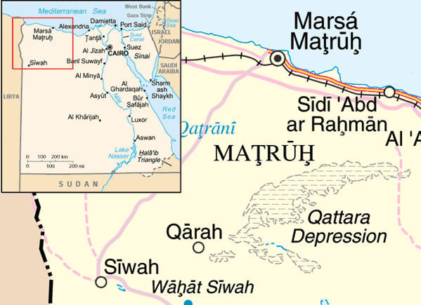 Map of the Qattara Depression, Egypt Adapted from and Image:Eg-map.png